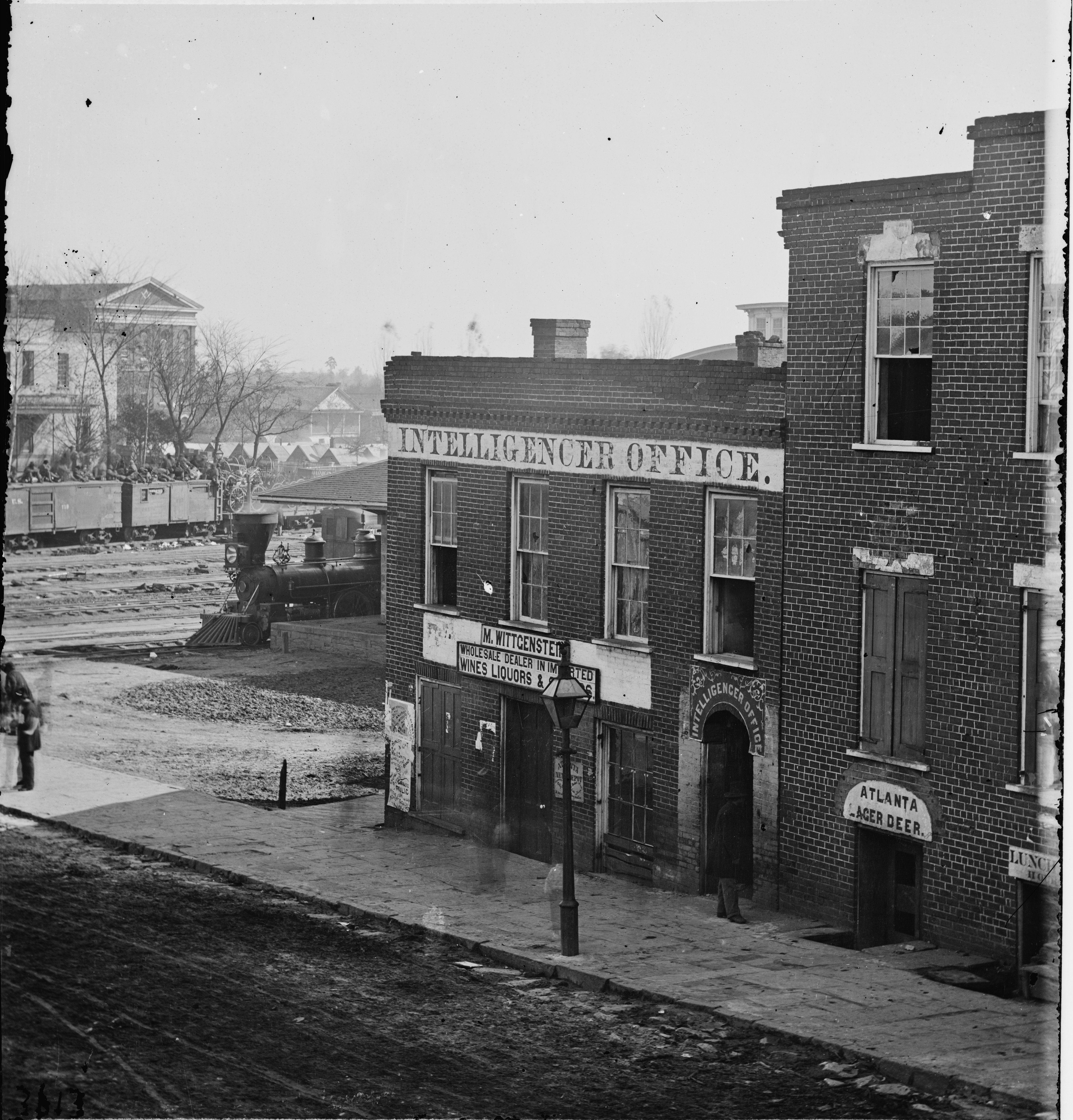 Photo of Atlanta Intelligencer.